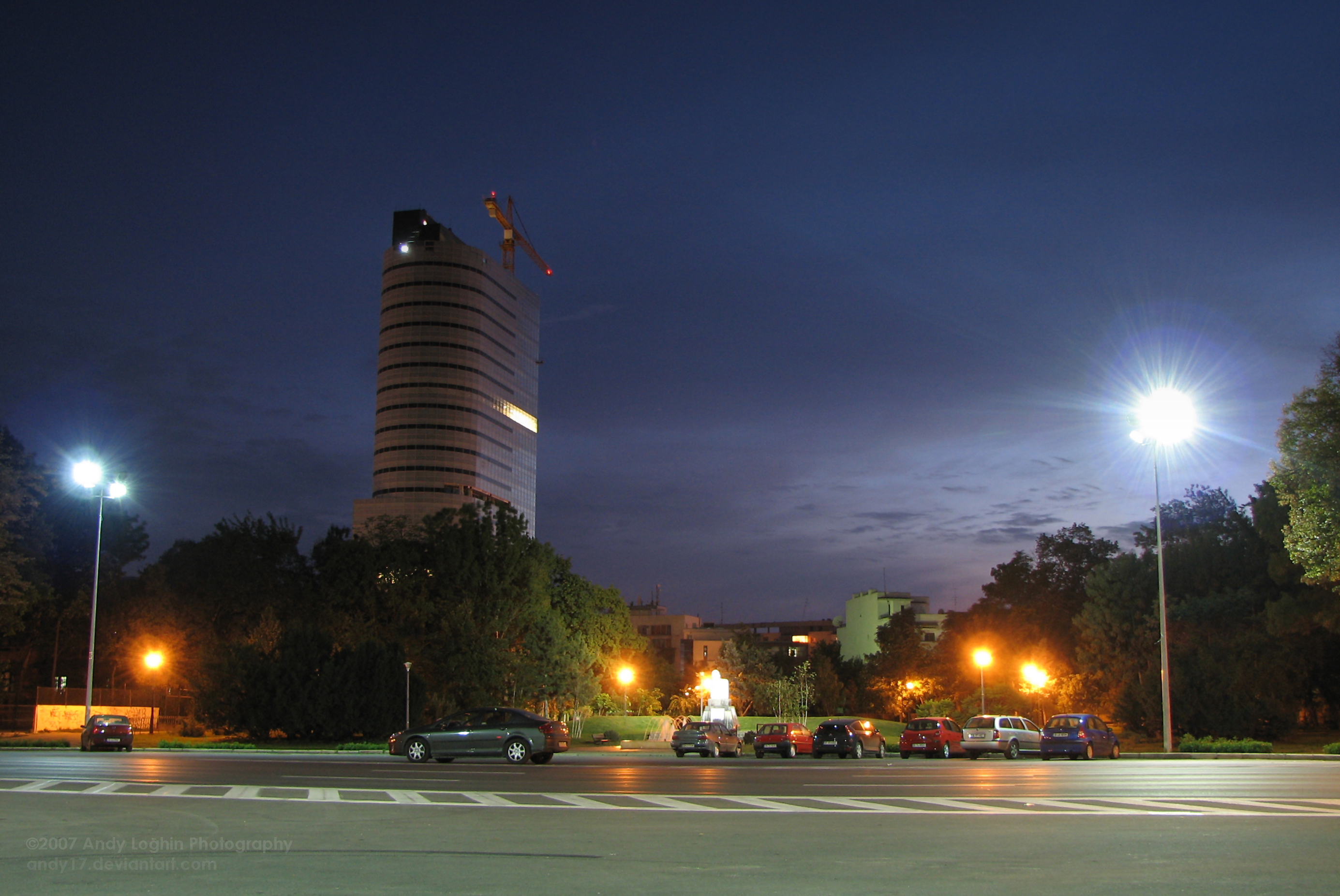 Tower Center International, Bucharest